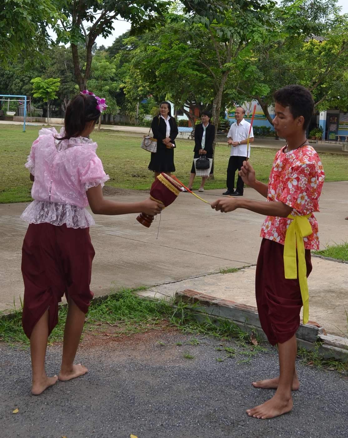 MANGKALA TRADITIONAL FOLK PROCESSION BAND at Phitsanulok Province, Thailand.) Date2014SourceOwn workAuthor ผู้สร้างสรรค์ผลงาน/ส่งข้อมูลเก็บในคลังข้อมูลเสรีวิกิมีเดียคอมมอนส์ - เทวประภาส มากคล้าย Permission (Reusing this file)